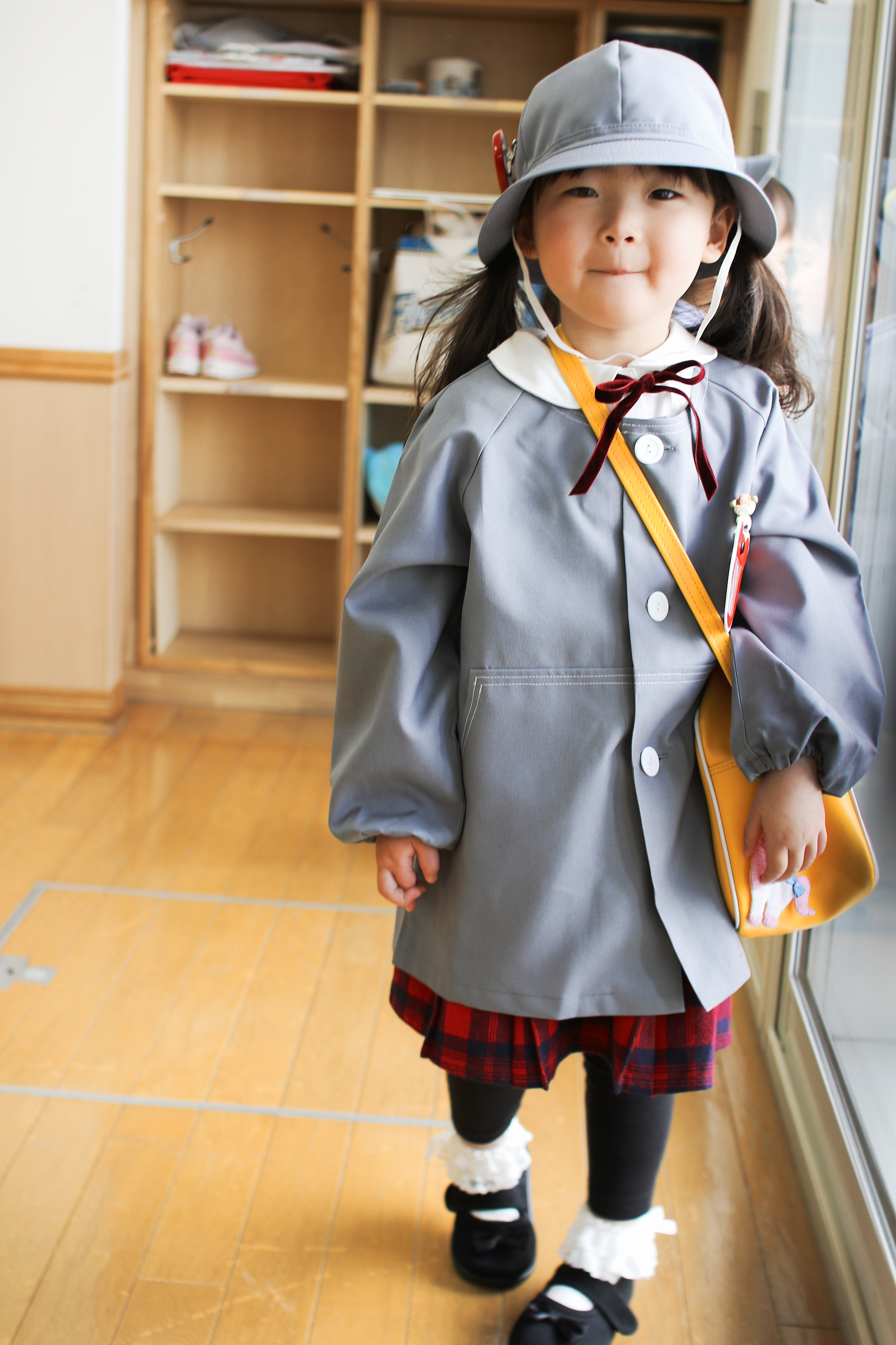 A girl at a Japanese kindergarten entrance ceremony, April 2019.